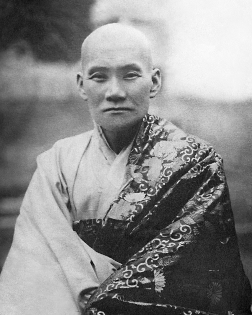 Hanam Jungwon (1876-1951) Photo believed to have been taken at Sangwon Temple sometime between 1926-1935